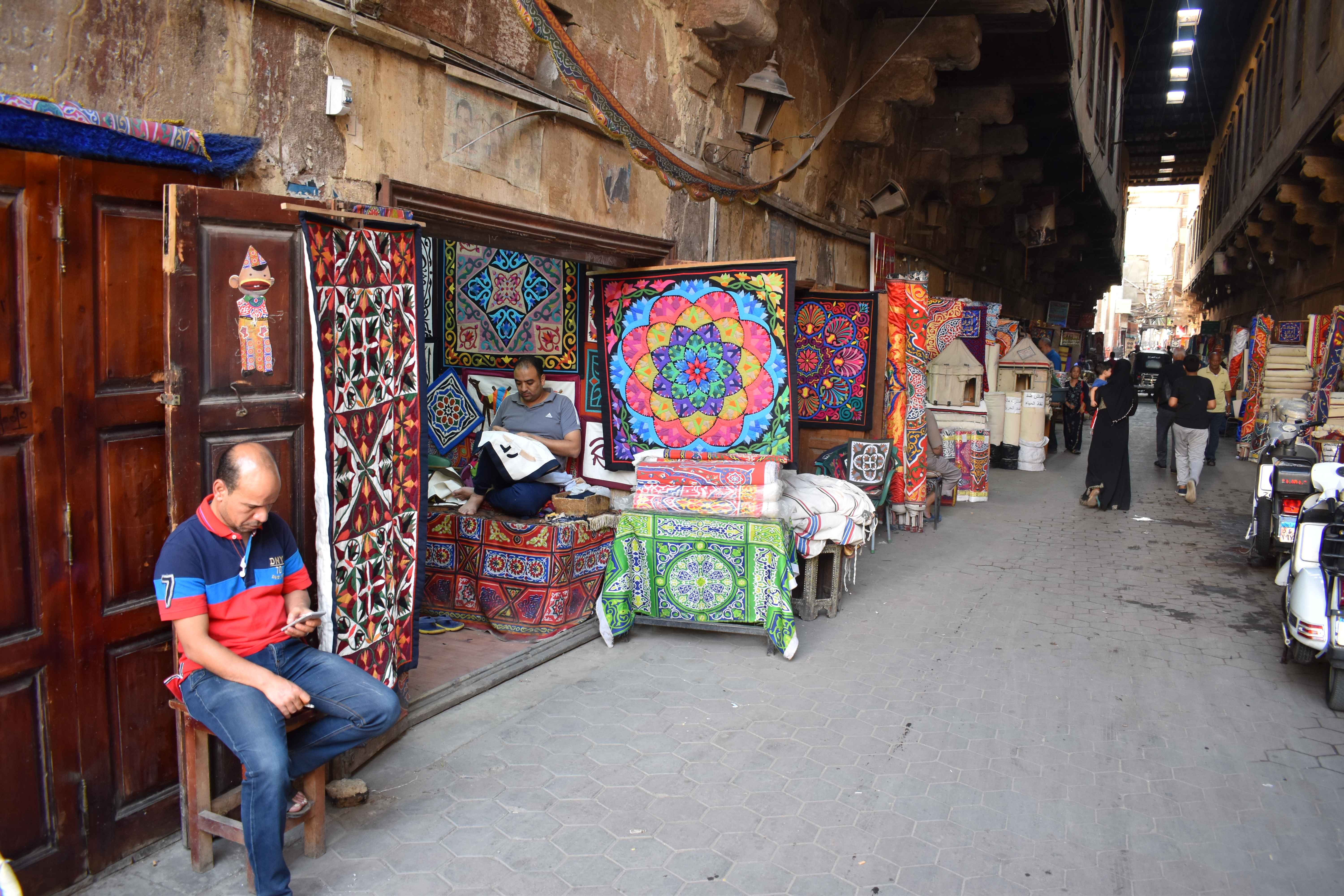 Tent maker in Elkhiyamia street in 2017, photo by Hatem Moushir